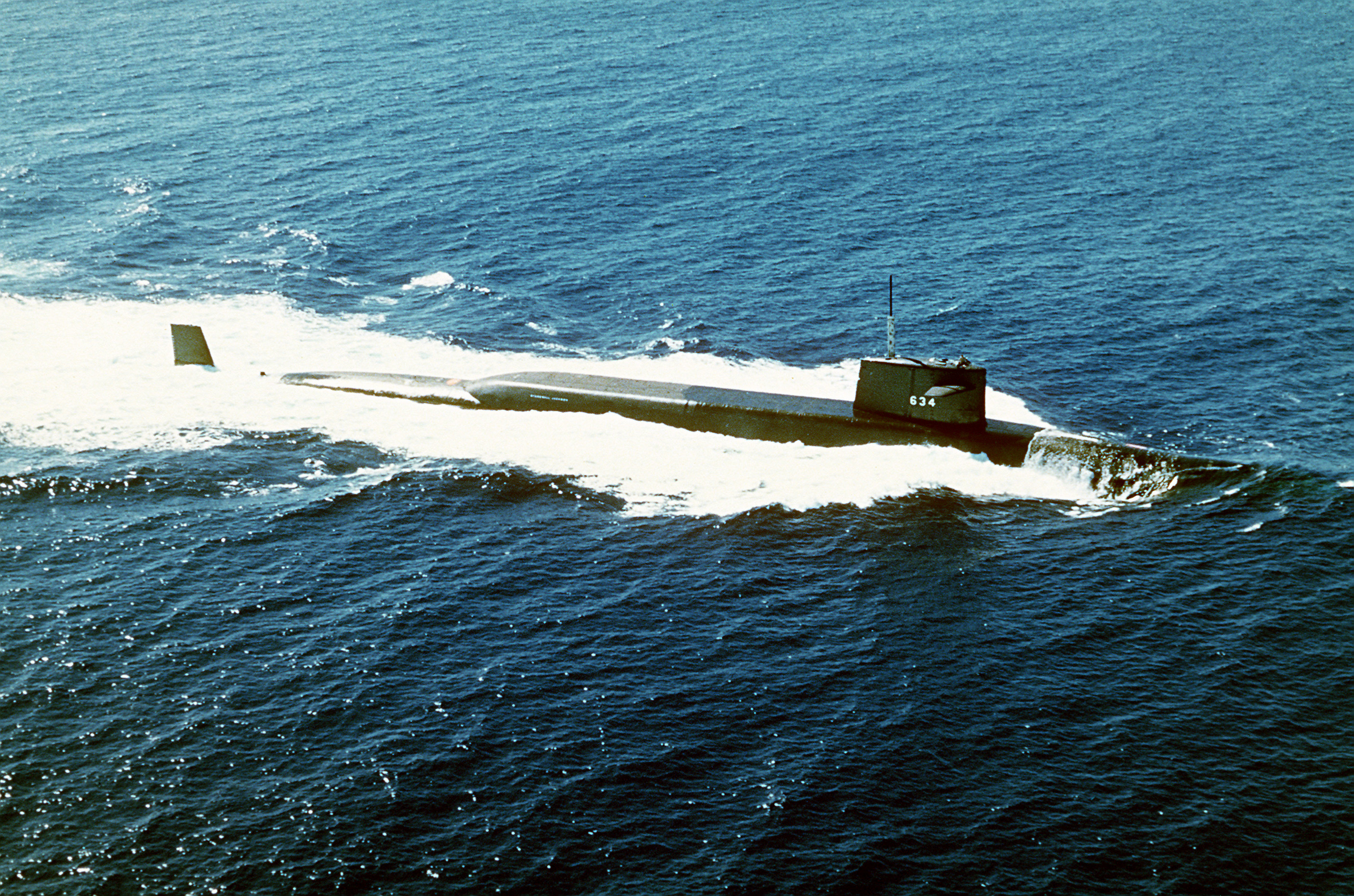 A starboard view of the nuclear-powered strategic missile submarine USS STONEWALL JACKSON (SSBN-634) underway. Location: NAVAL AIR STATION, BARBERS PT., HAWAII (HI) UNITED STATES OF AMERICA (USA)